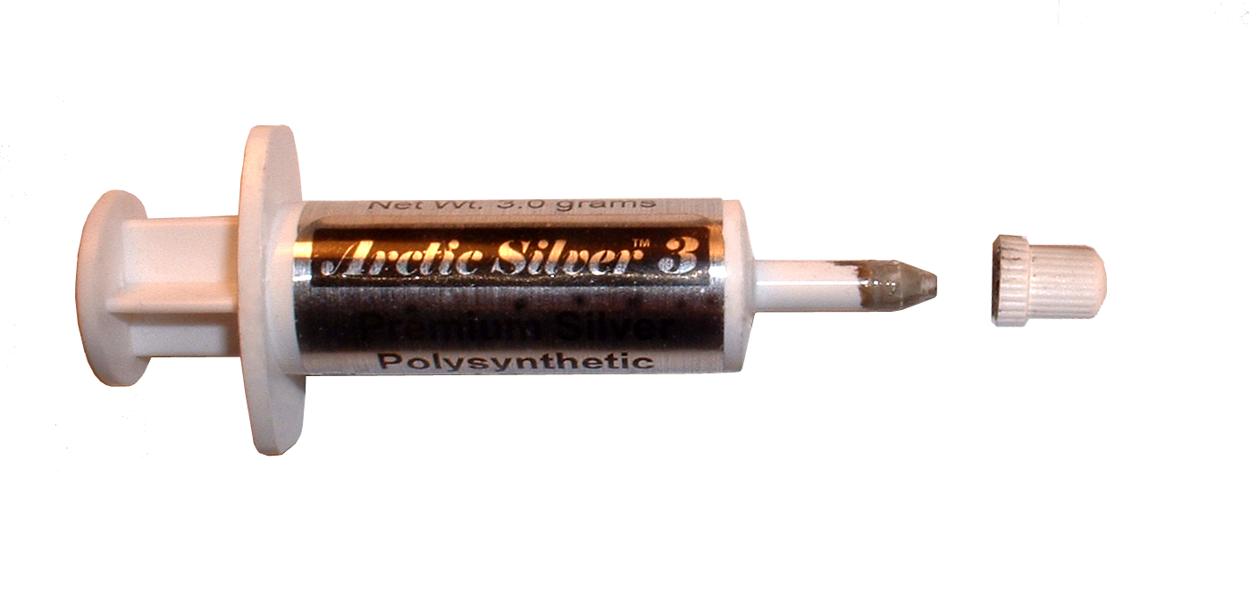 Thermal grease product (2003) by Arctic Silver